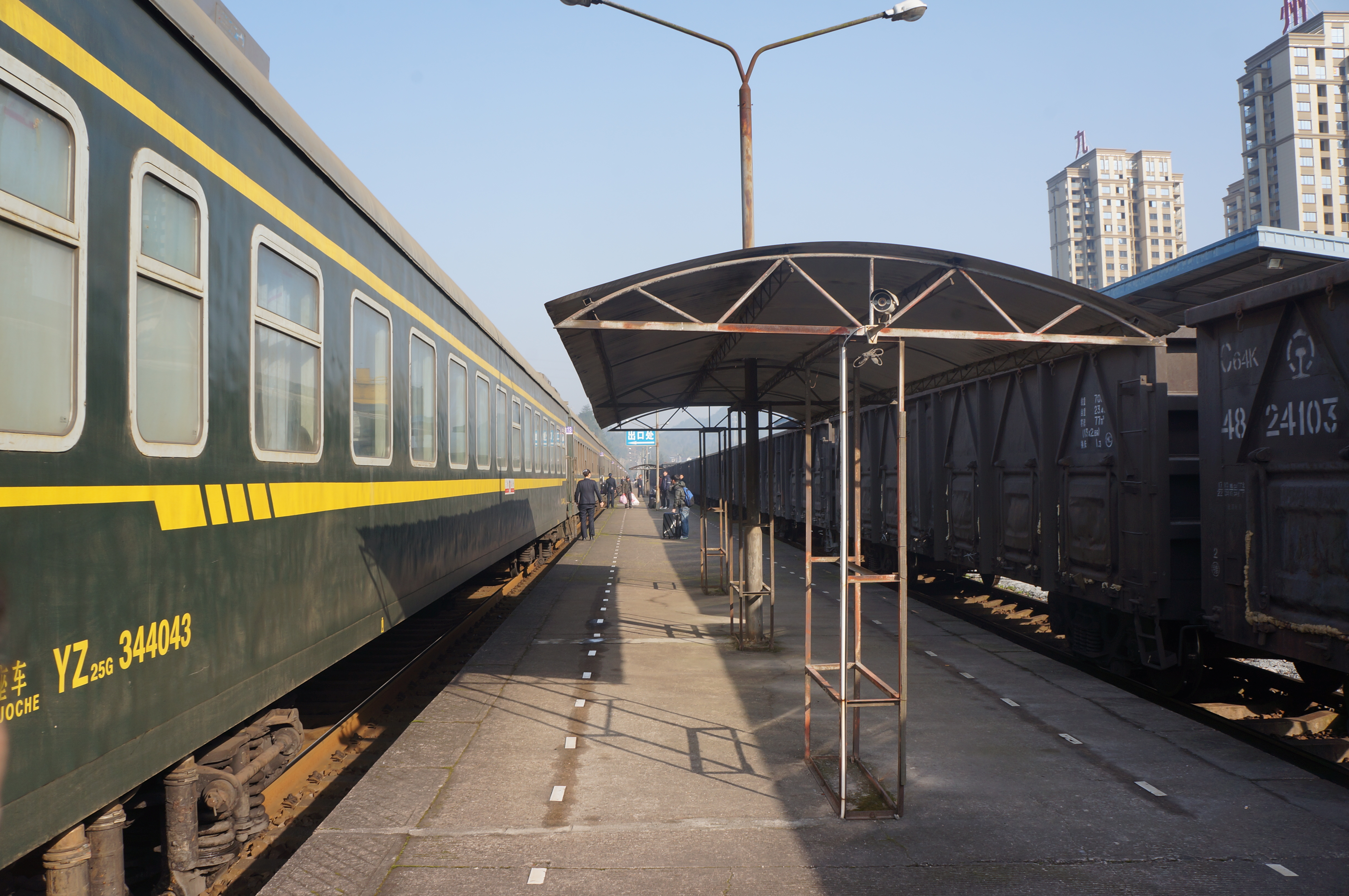 201701 K307 at Jinyun Station. Nobody was able to exit unless the K2906 and K305 depart.